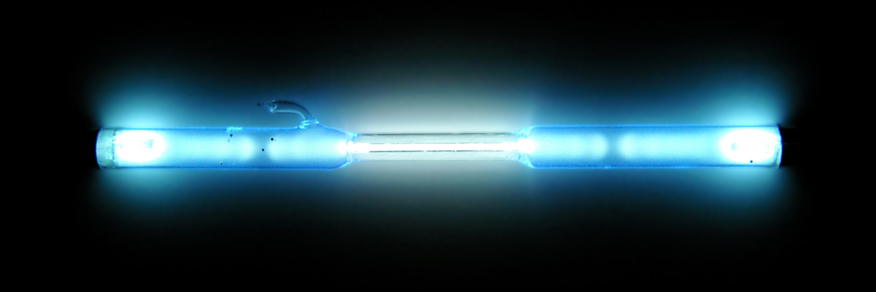 Spectrum = gas discharge tube filled with mercury Hg. Used with 1,8kV, 18mA, 35kHz. ≈8" length.